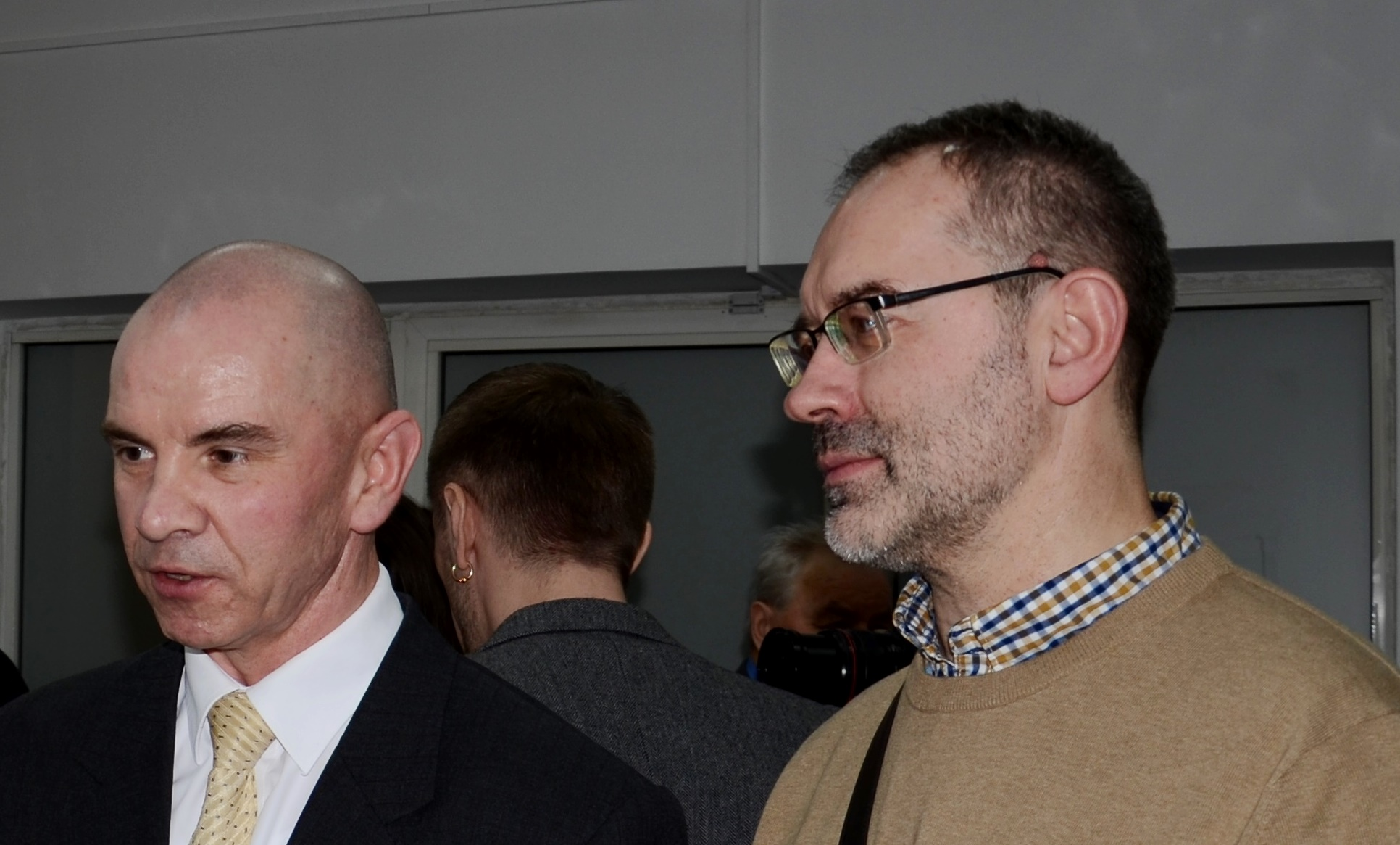 Belarusian photographers Igor Savchenko and Vladimir Parfenok